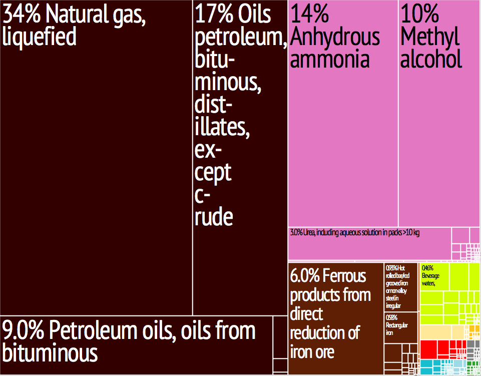 Trinidad and Tobago Export Treemap from MIT Harvard Economic Complexity Observatory